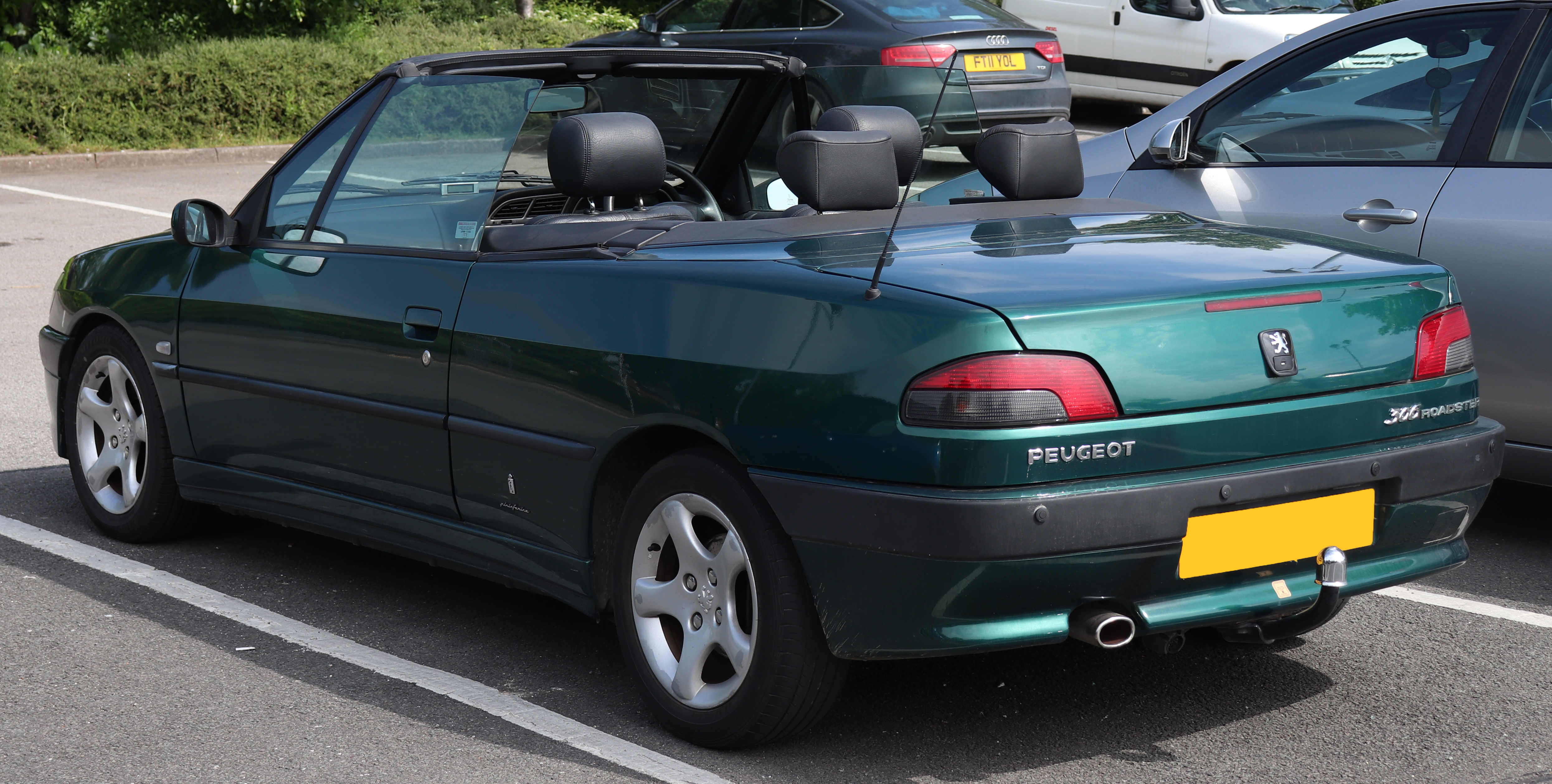 2001 Peugeot 306 Cabriolet S 16V 1.8 Rear Taken in Leamington Spa